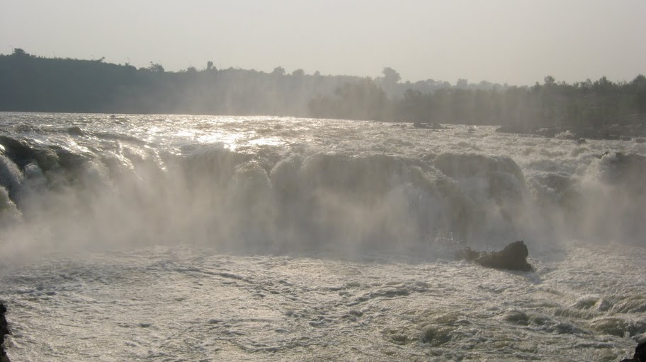 Bhedaghat - Dhuandhar water fall